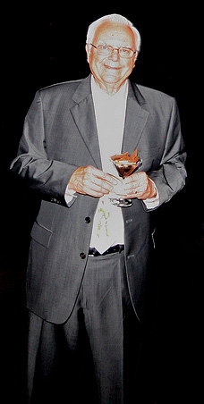 Frank Drake